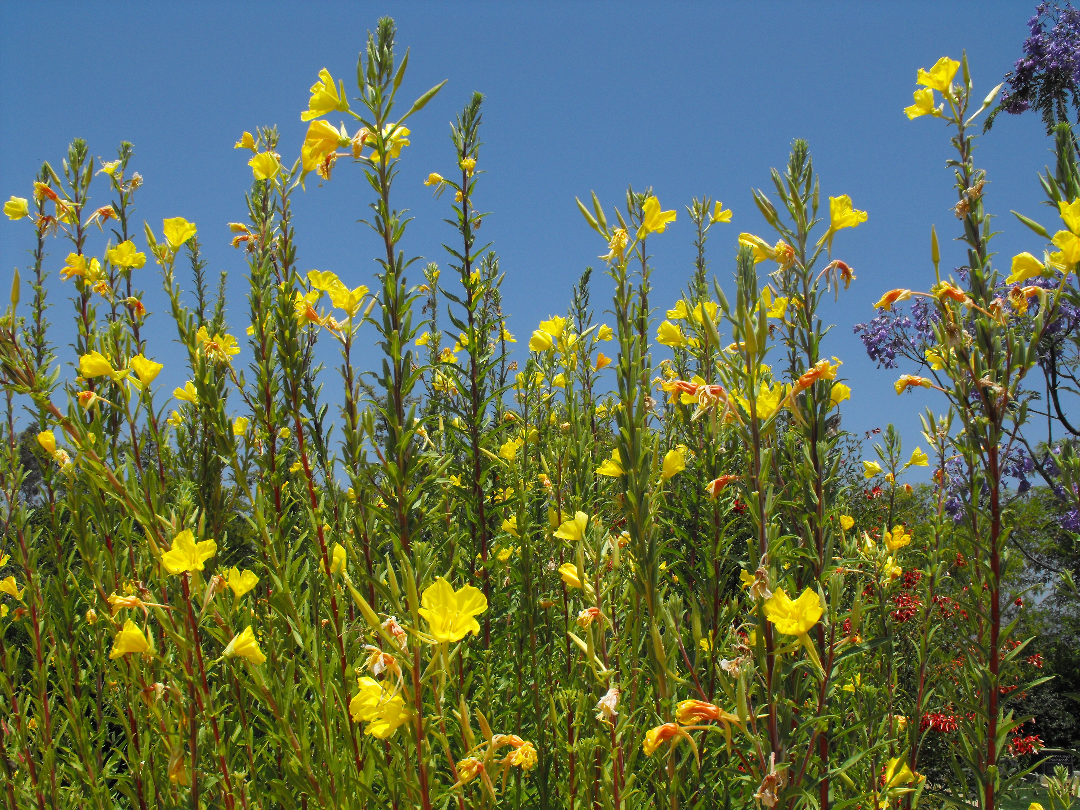 Oenothera hookeri at the Water Conservation Garden at Cuyamaca College in El Cajon, California, USA. Doesn't quite do justice to how tall the plants are - well over 6 feet.